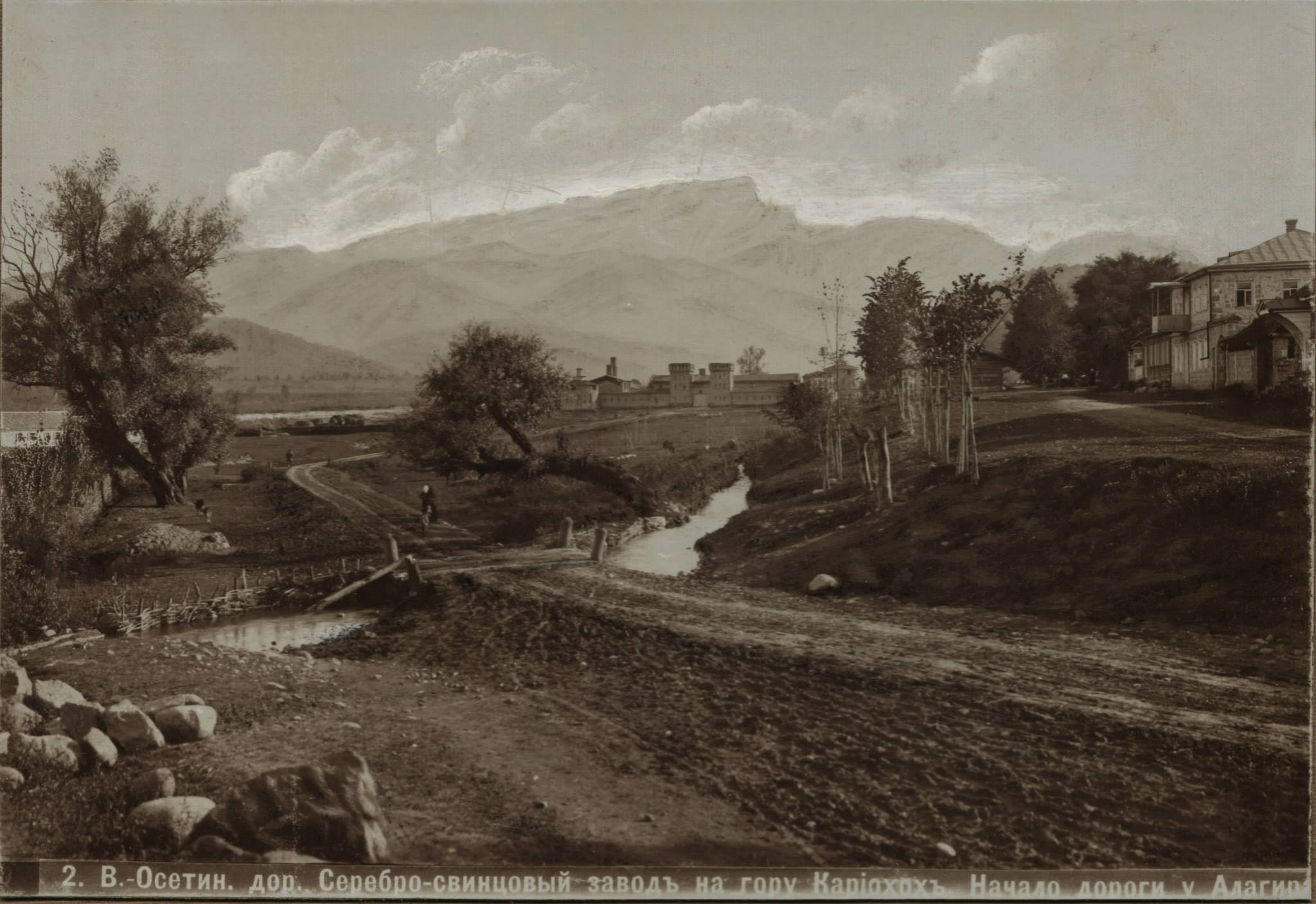 Gr. Raev. № 2. Silver factory near village Alagir